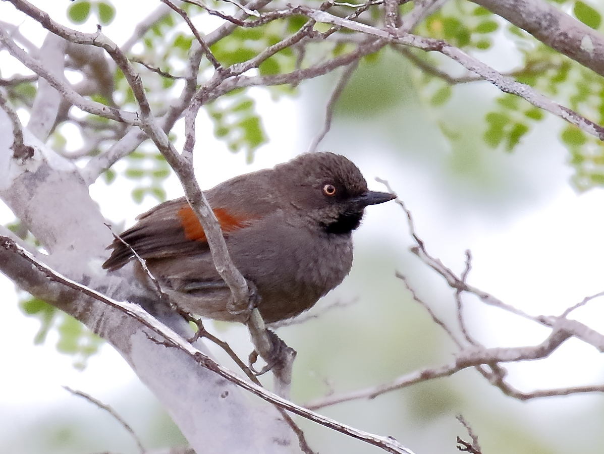 Red-shouldered Spinetail, Canudos, Bahia, Brazil